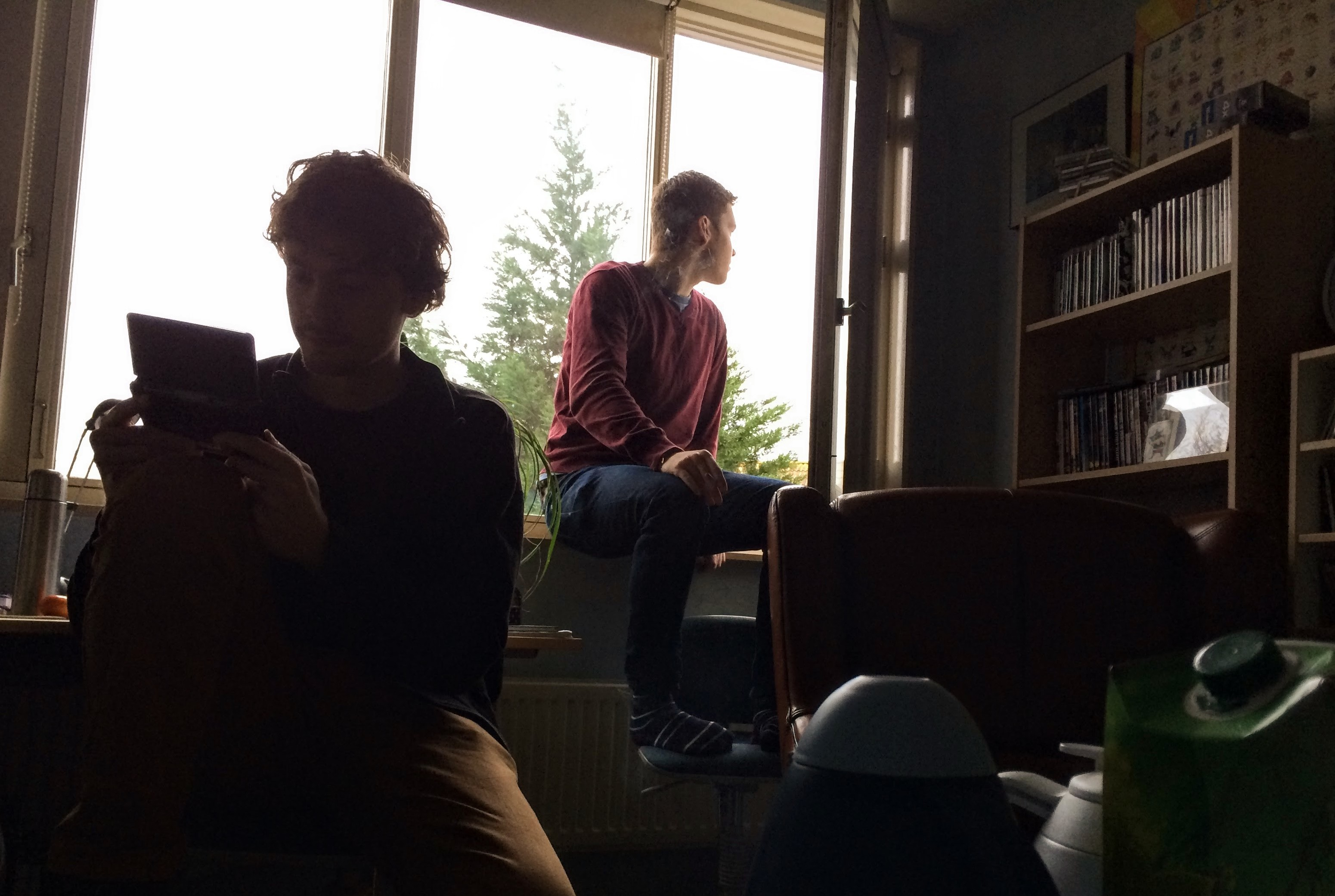 Two friends relaxing